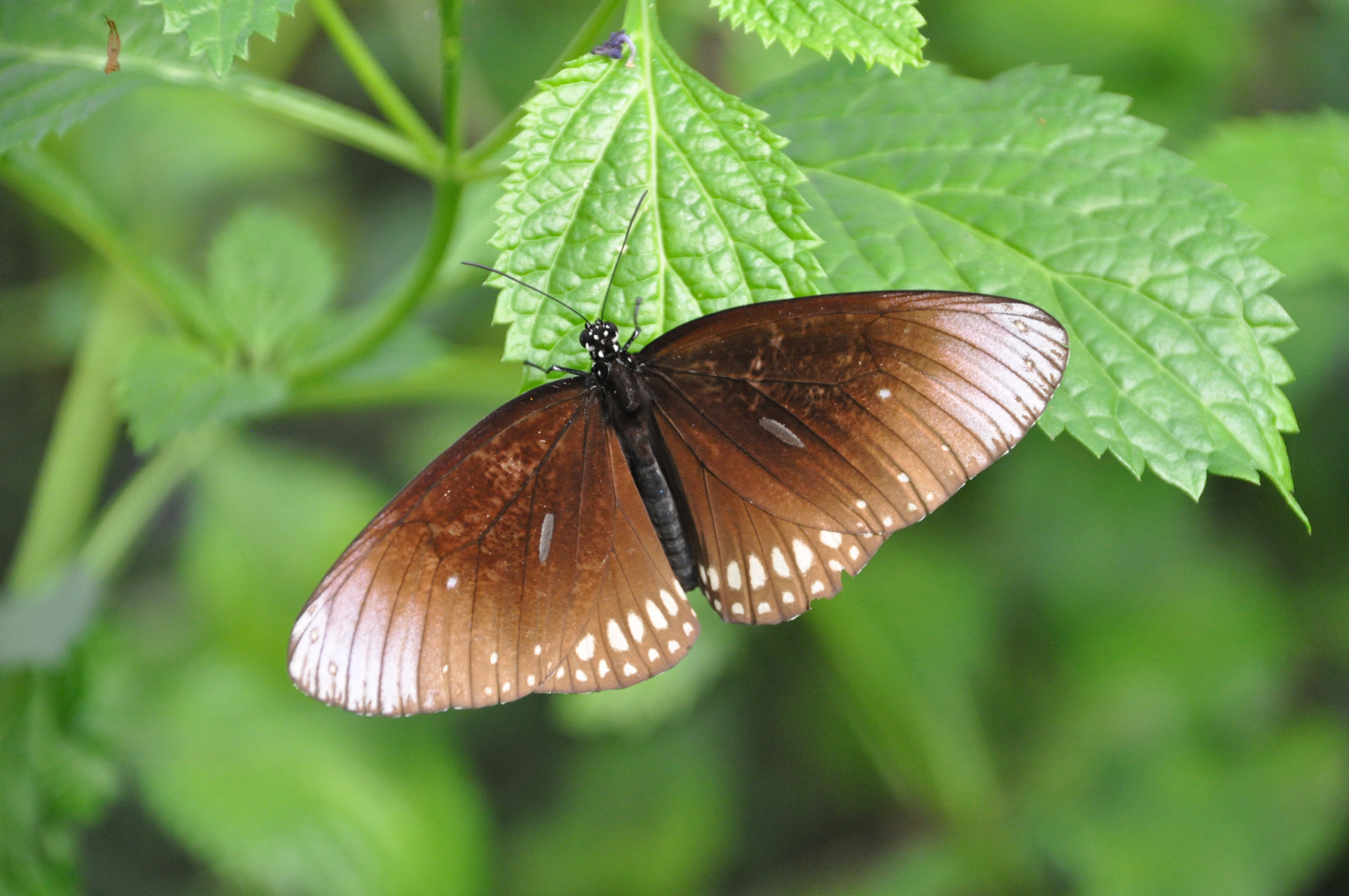 Common Crow (Euploea core)